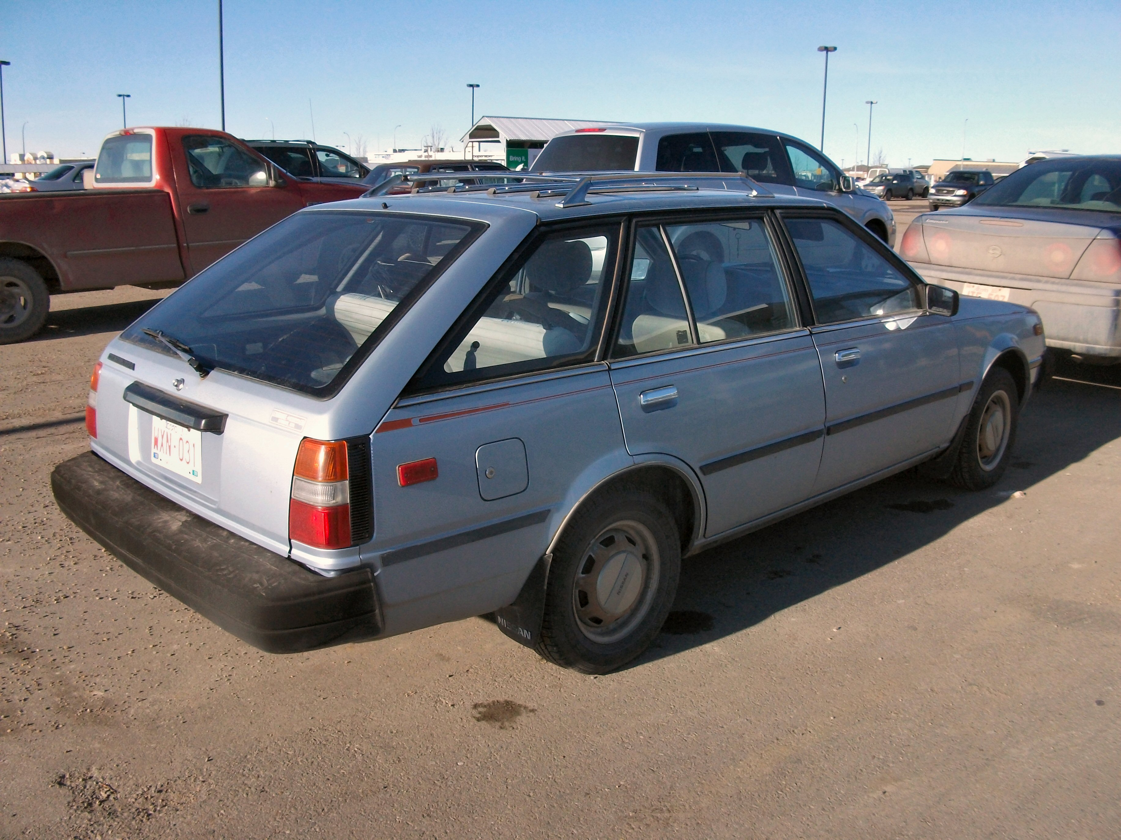 Nissan Sentra station wagon